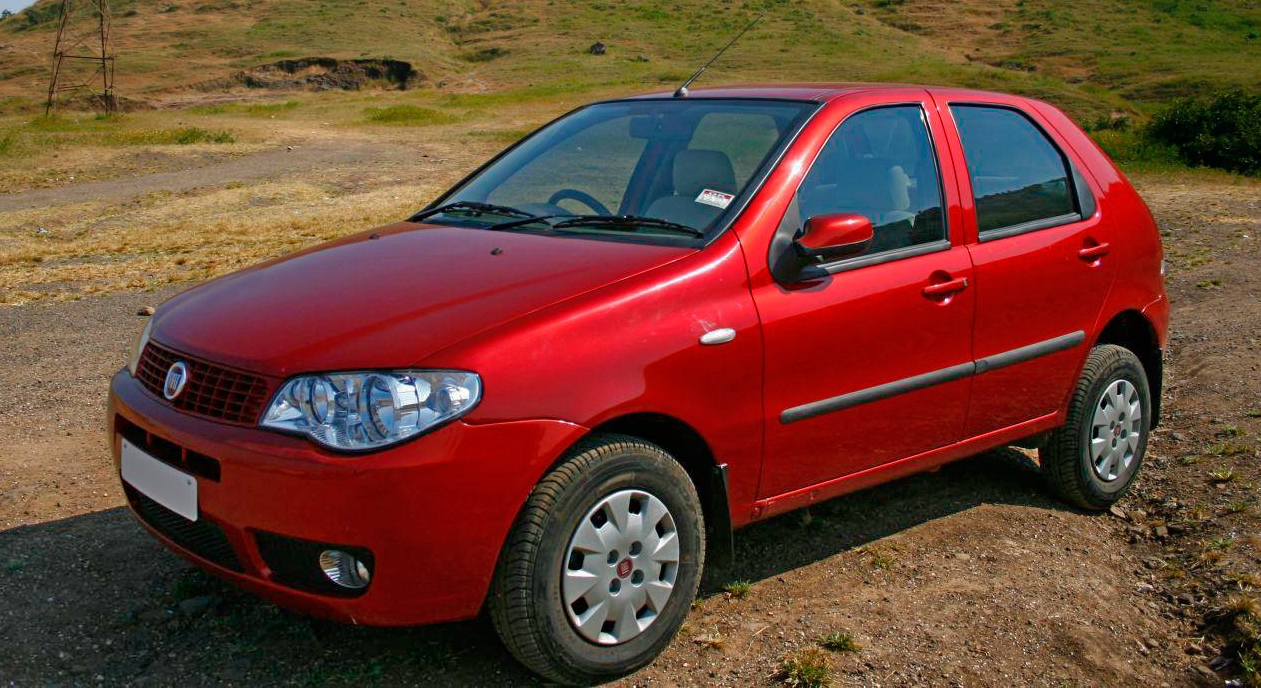 The Fiat Palio Stile 1.3 Multijet Diesel in India.